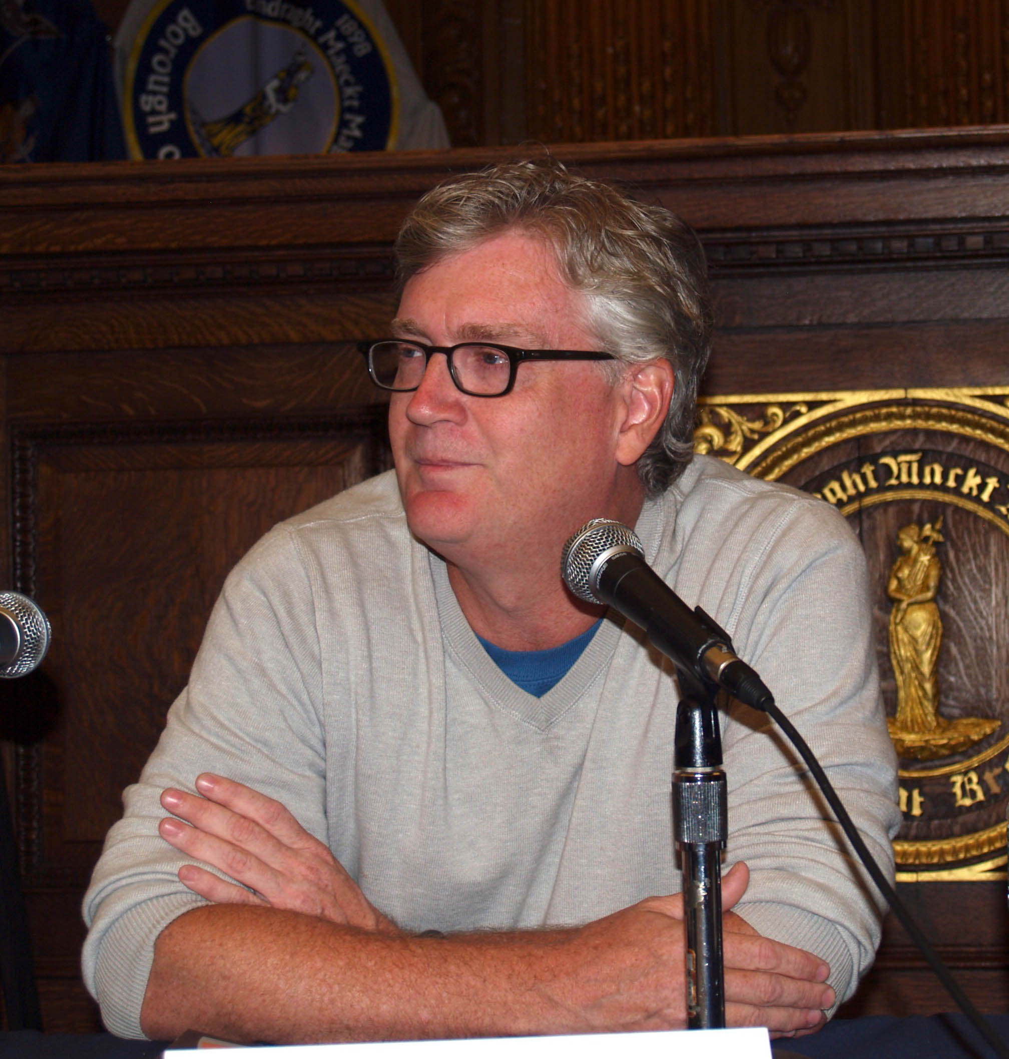 Novelist Jonathan Dee speaking on the "People Fall Apart" panel at the the 2014 Brooklyn Book Festival, in which he and other writers discussed the role of impermanence, forgiveness and magic in literary tragedy. This photo was created by Luigi Novi. It is not in the public domain, and use of this file outside of the licensing terms is a copyright violation.